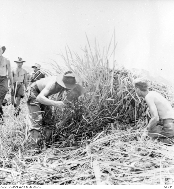 Kokoda, New Guinea. November 1942. After clearing the tropical growth at the edge of the airstrip this RAAF airfield construction unit appears to have unearthed an abandoned enemy airfield defence post. Troops peer at what appears to be a gun barrel.